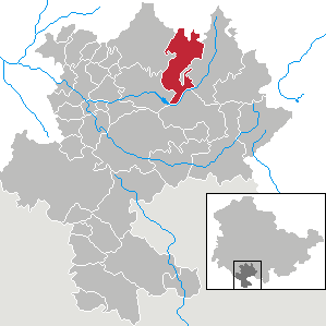 Nahetal-Waldau in Thuringia - district Hildburghausen